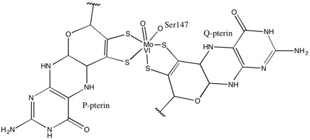 I made this using ChemBioDraw